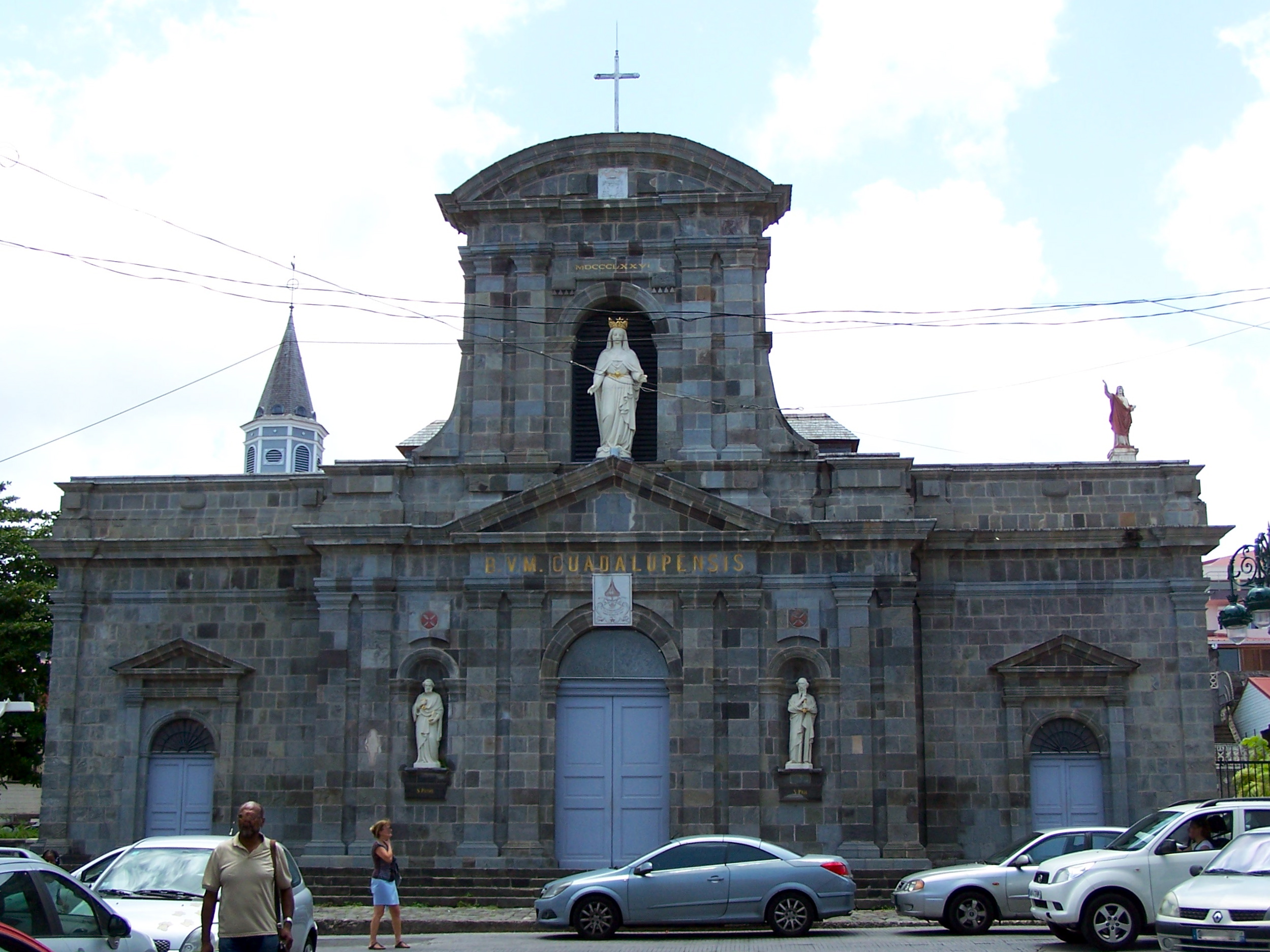 Cathédrale Notre-Dame-de-Guadeloupe à Basse-Terre, Guadeloupe